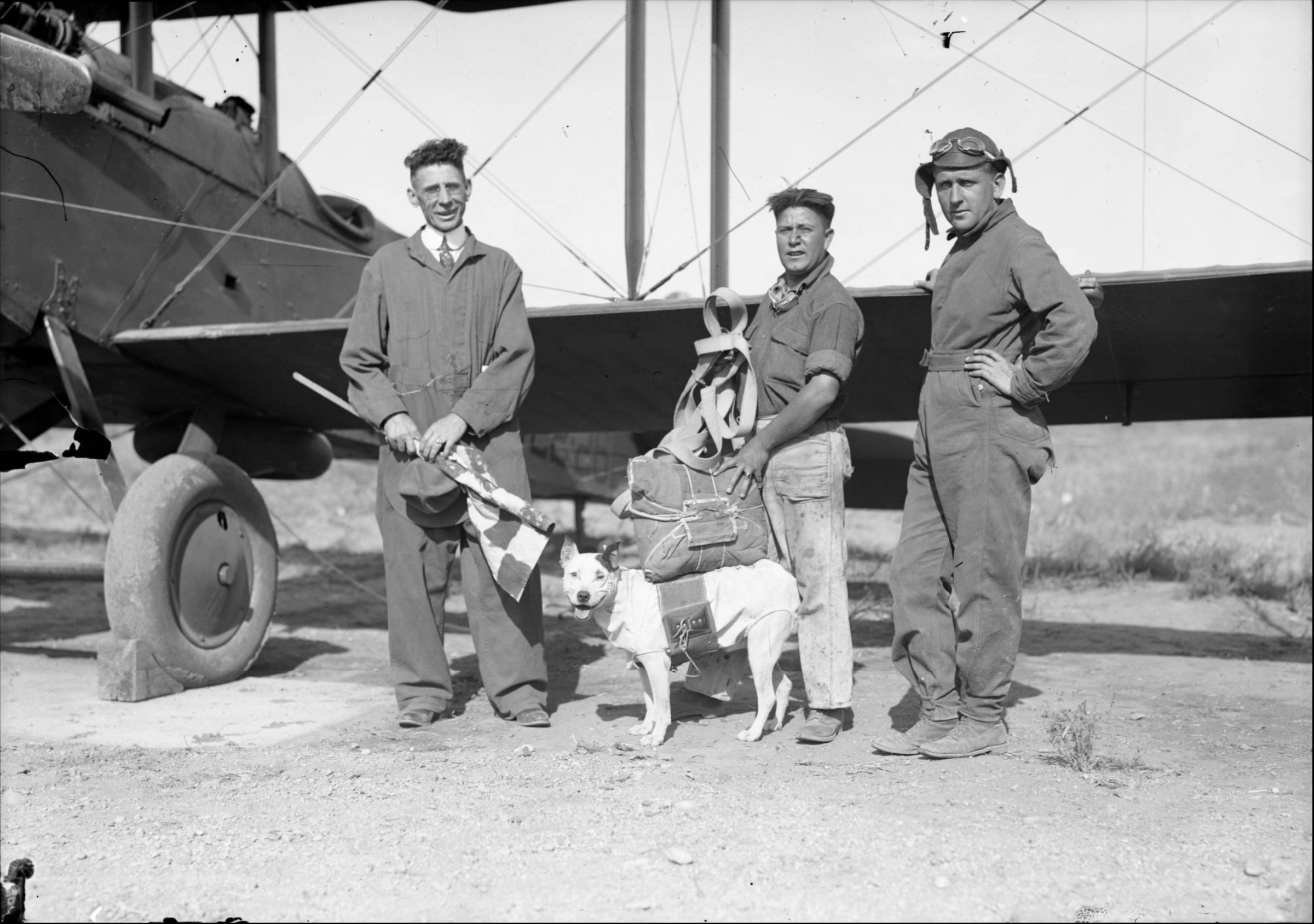 Members of the 120th Areo Observation Squadron of the Colorado National Guard at Lowry Airfield with their mascot, Jeff the dog (equipped with a parachute), circa 1924. Next to them is a Curtiss JN-4 Jenny biplane. Members of the Colorado Air National Guard, Jimmy Ziegler (center), Danny Kearns (right), and unidentified man in Denver, Colorado.